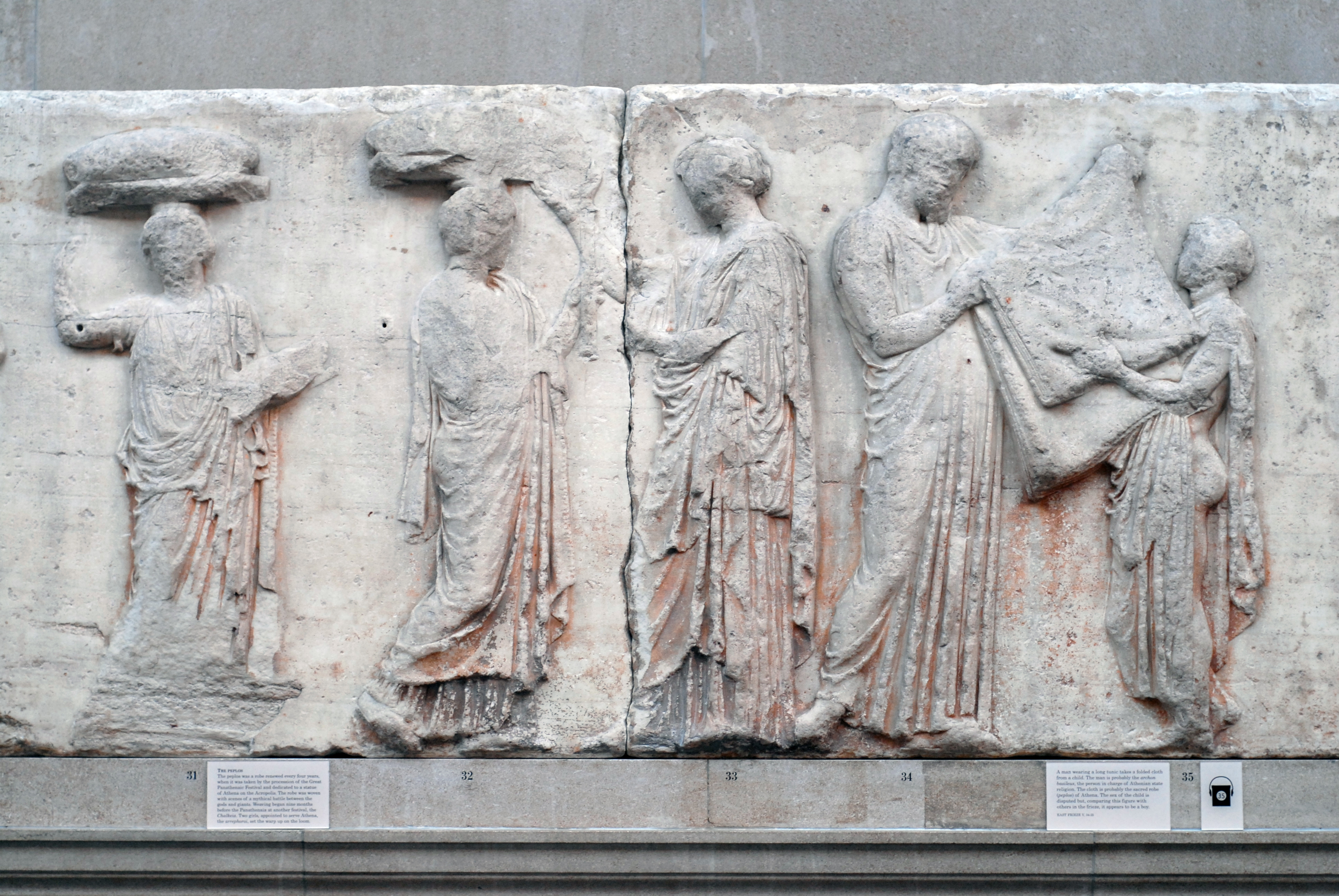 Peplos scene. Block V (fragment) from the east frieze of the Parthenon, ca. 447–433 BC.